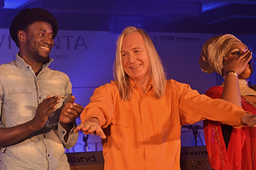 Deep Forest, the grammy winning band from France at Deep India Concert. The event was organized by Vivanta by Taj, Bangalore. (Jim Ankan Deka photography)